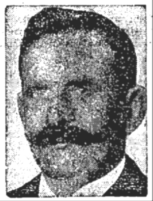 Hans Vogel (1881-1945), German politician